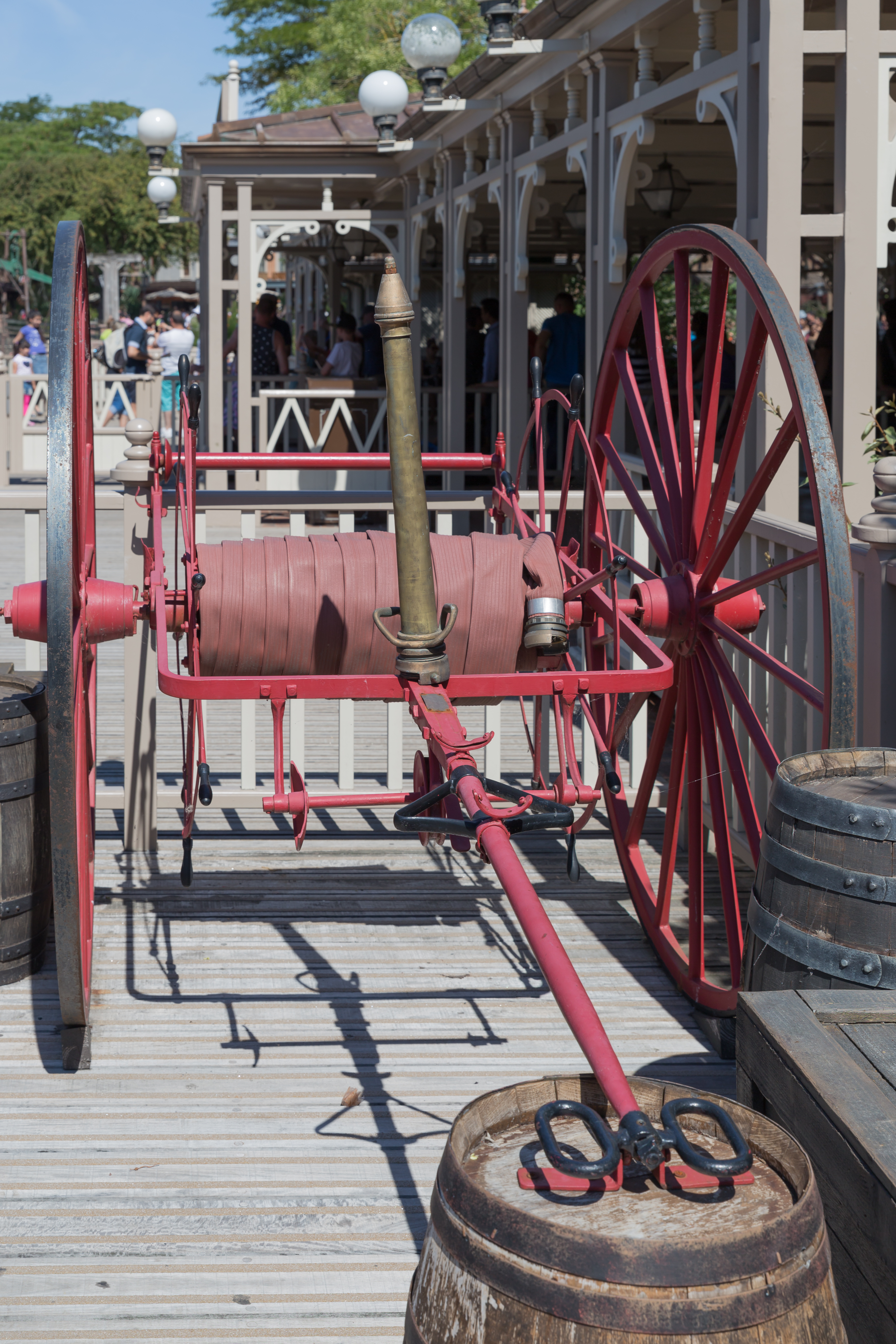 Fire hose reel with her at Disneyland Paris.